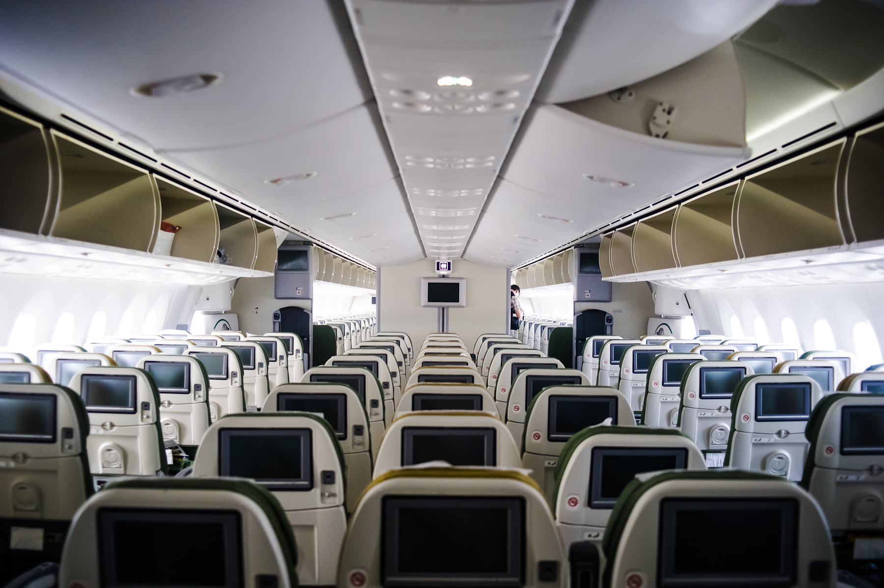 by Thomas Vandermeiren